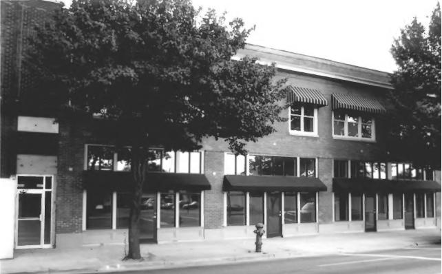 The Warenski-Duvall Building, Murray, Utah. Replaces "bugged" gif version